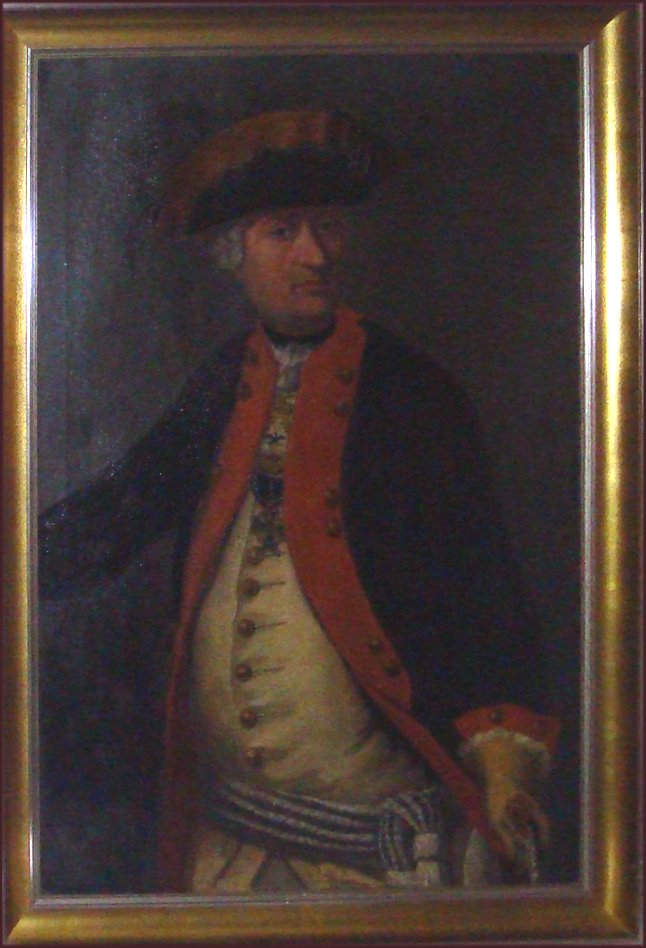 Portrait of Heinrich Wilhelm Lettow (1714-1793)